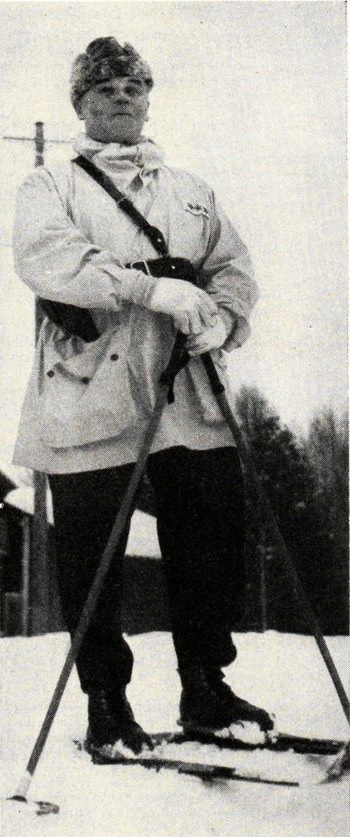 Colonel Pehr Janse (1893-1961) on skis during winter exercise in March 1945.